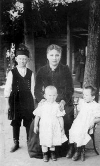 Анастасия Петровна Белова была женой купца 2-й гильдии Герасима Ивановича Белова. благотворительница.